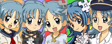 5 Wikipe-tan faces. It can be used as Anime & manga project banner or to show Wikipe-tan briefly. PNG Output from Image:Wikipe-tan 5face.xcf. You can use the layered GIMP version Image:Wikipe-tan 5face.xcf for derivative works.